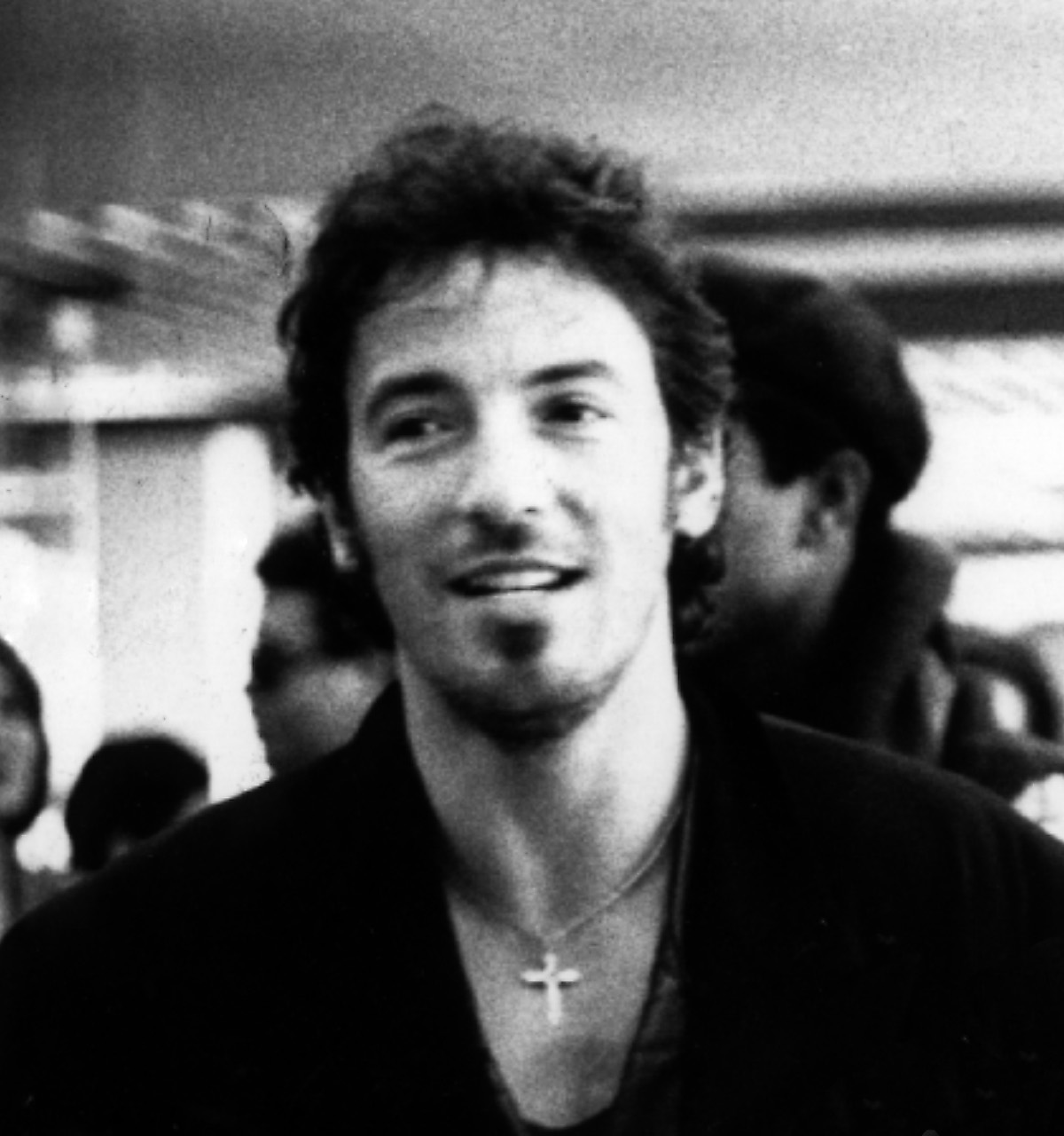 Airport in direction of Abidjan for the first amnesty international tour of Africa